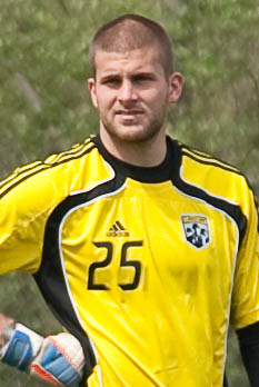 I shot this photo during training on 4/15/2011 at Columbus Crew Training Center in Obetz, Ohio.